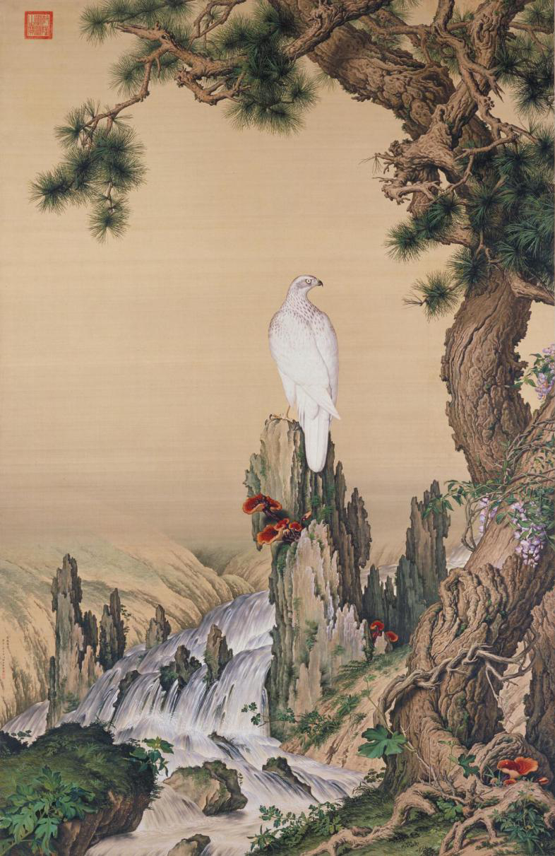 The Pine, Hawk and Glossy Ganoderma, 1723—35, by Lang Shining (Giuseppe Castiglione). Hanging scroll, colour on silk. The Palace Museum, Beijing.